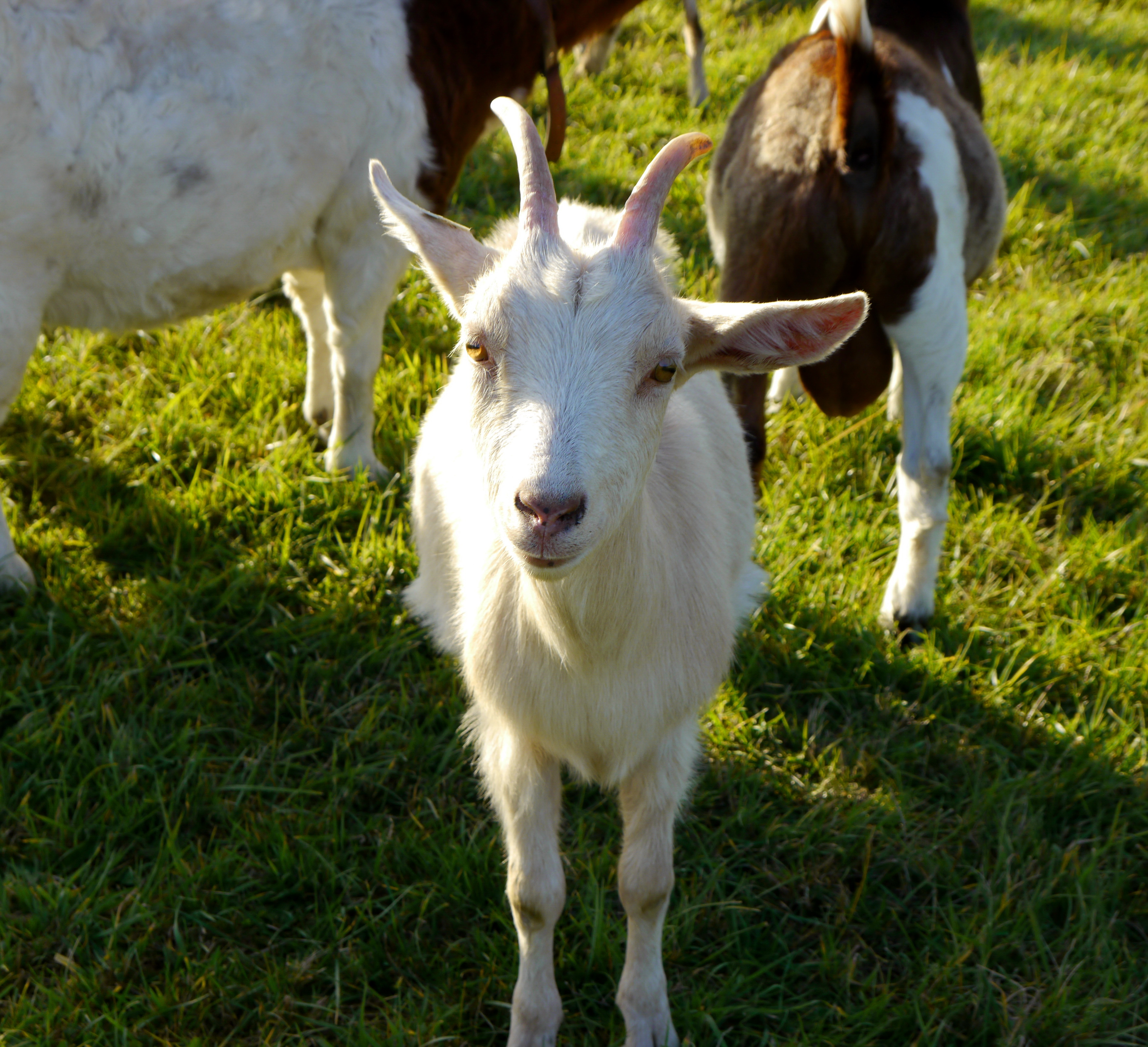 Domestic goat, Germany (State of Hesse)